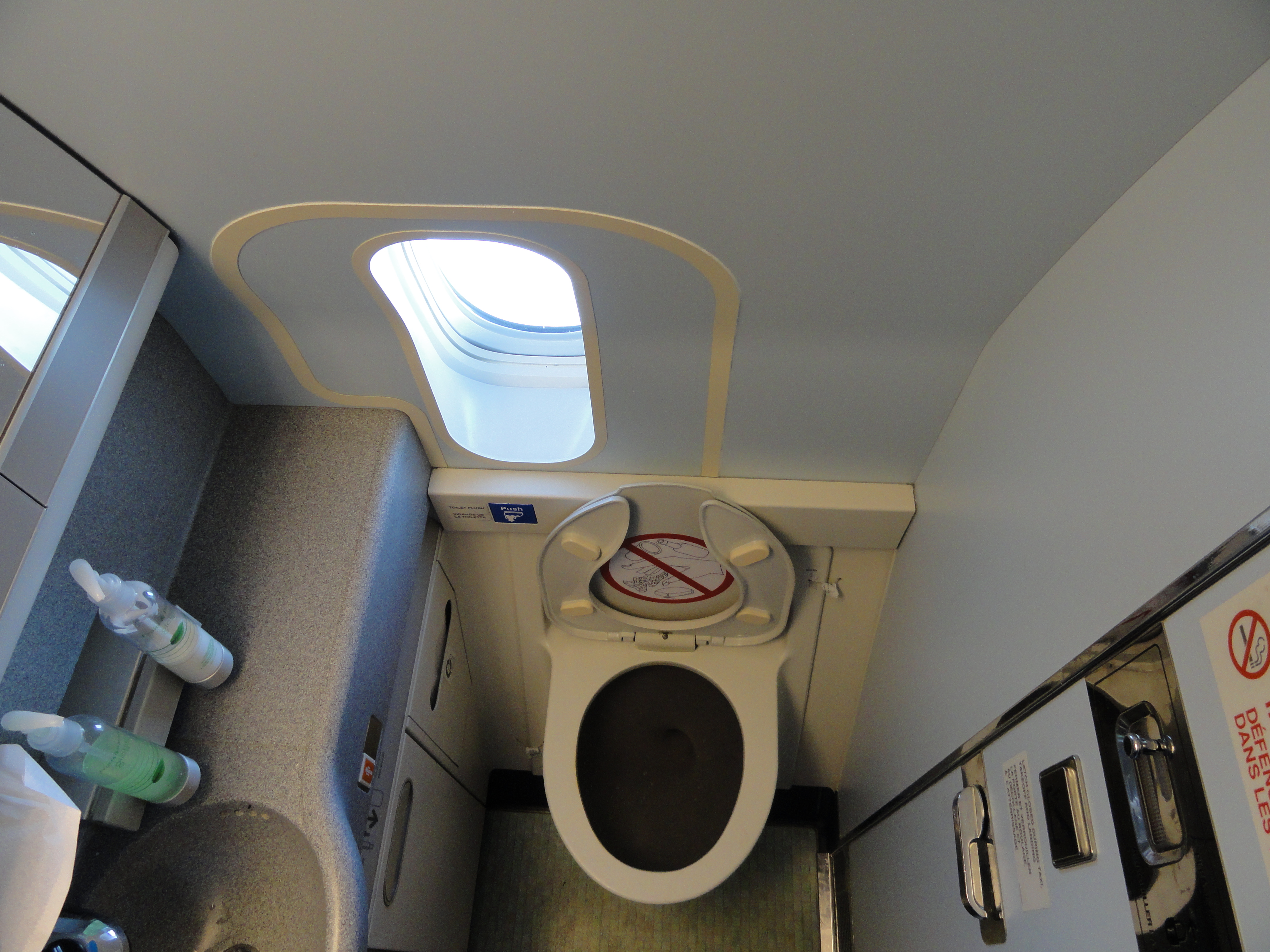 First class lavatory, Air Canada Boeing 777-200LR